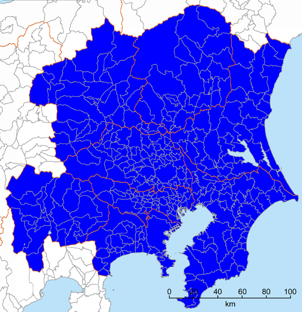 Map of the National Capital Region (首都圏) of Japan, one of the various definitions of Tokyo/Kanto. The definition is according to the National Capital Region Planning Act (首都圏整備法). It should be noted that in informal occasions, the word National Capital Region (首都圏) often means much smaller area (Greater Tokyo).